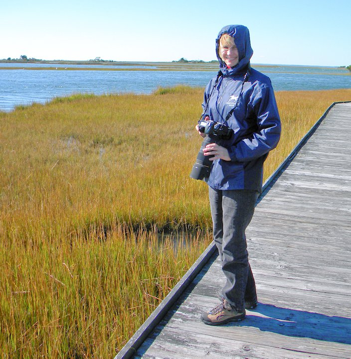 Bonnie Gruenberg, author of The Wild Horse Dilemma: Conflicts and Controversies of the Atlantic Coast Herds, on a research trip to Assateague Island National Seashore.